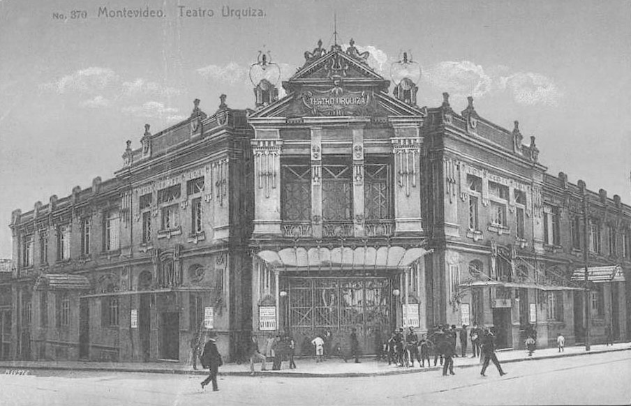 Teatro Urquiza, Montevideo, 1912